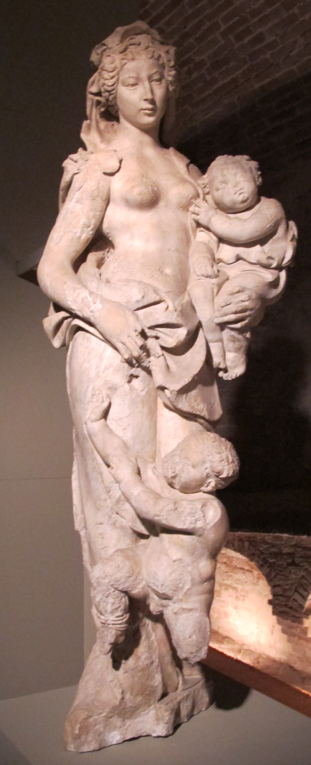 Santa Maria della Scala Hospital (Siena)